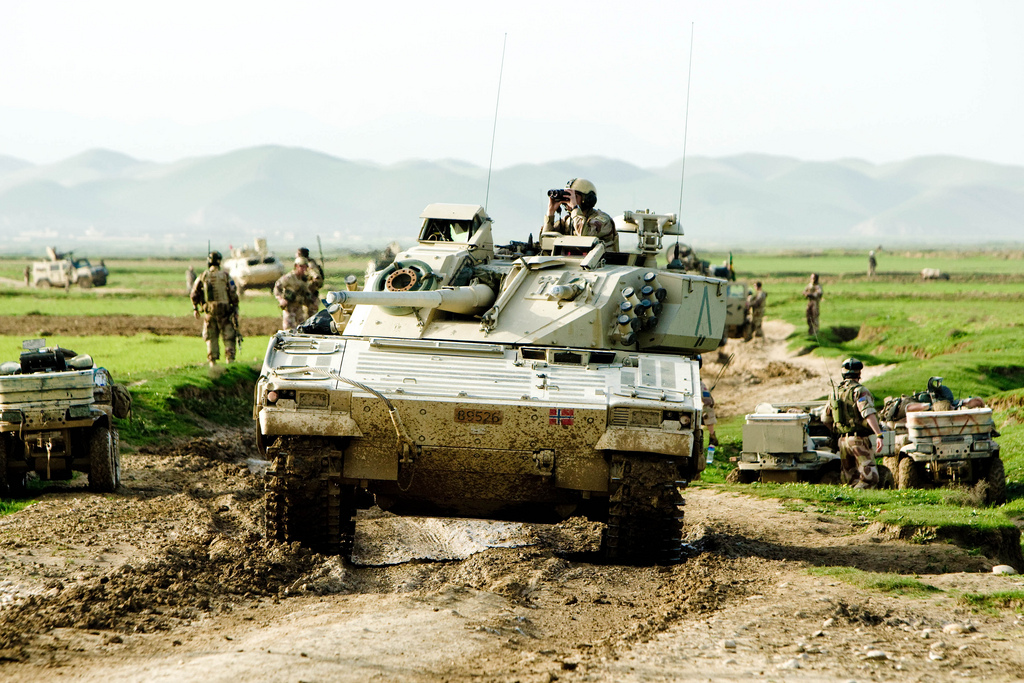 Norwegian soldiers running operations in Faryab Province, Afghanistan. The International Security Assistance Force(ISAF) is a NATO-led, 44-nation military coalition dedicated to helping Afghan authorities provide security and stability and creating the conditions for reconstruction and development.